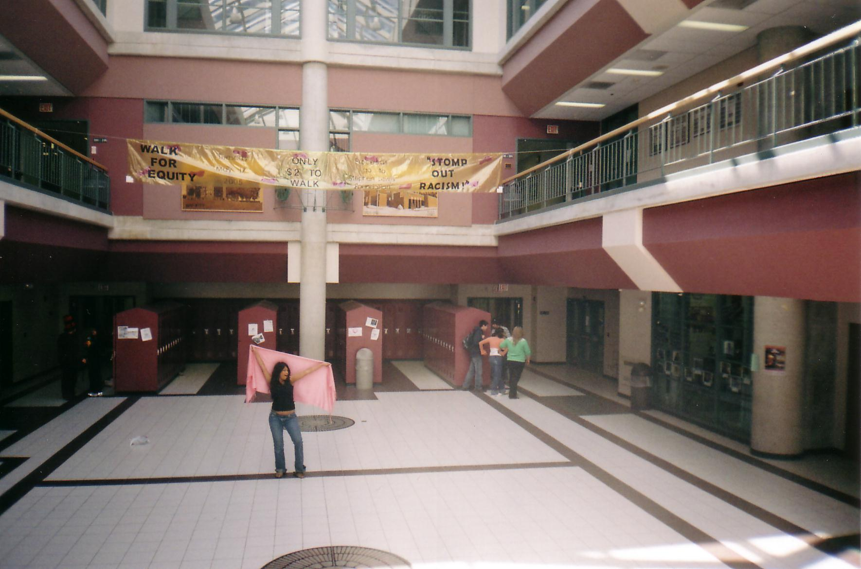 The atrium of the current N.H.S. Student groups often make banners that are attached to the railings of either hallways, as shown in the image. This picture was taken in March, 2005.